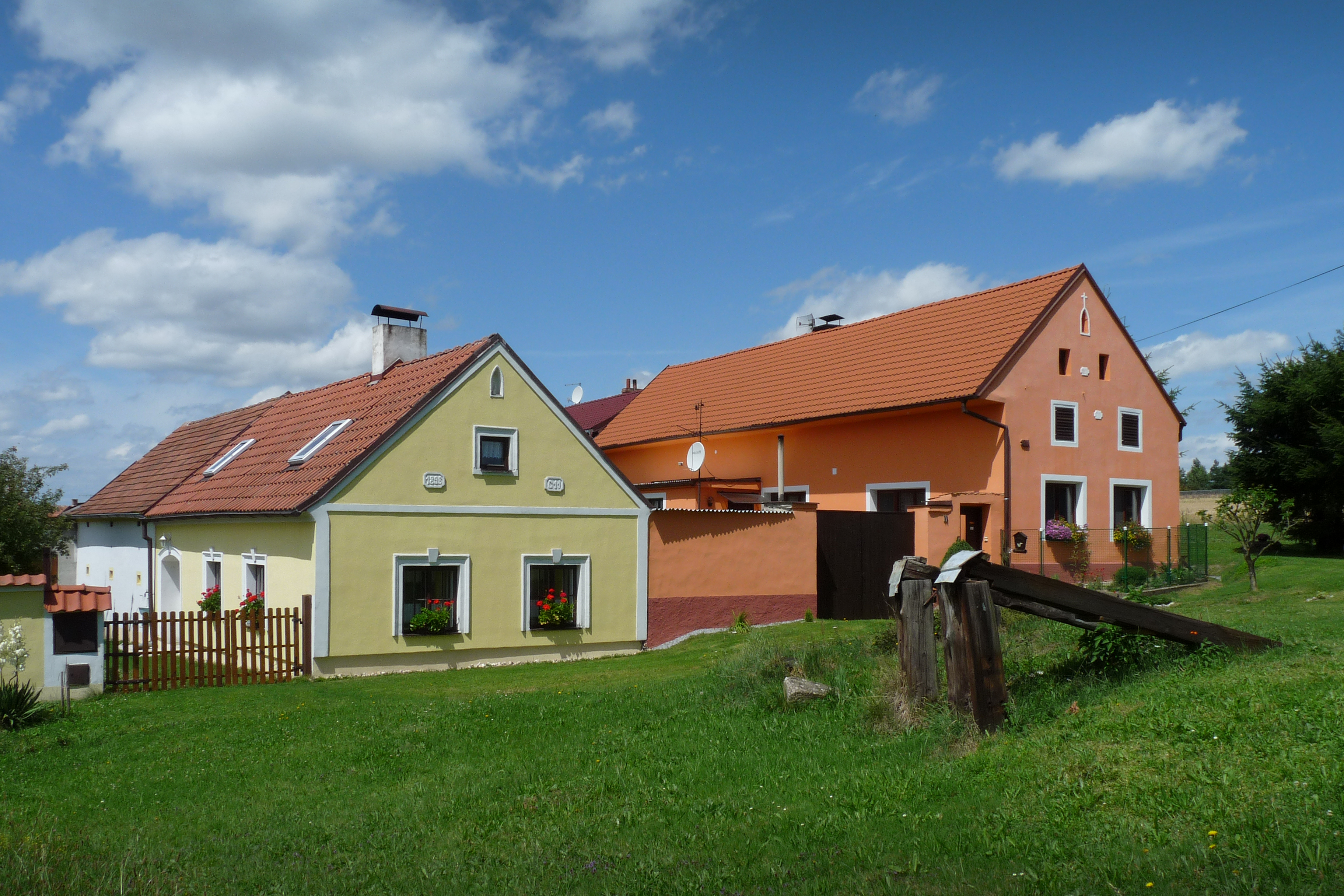 House No 11 in the village of Hůrka, part of Nová Ves, České Budějovice District, Czech Republic.